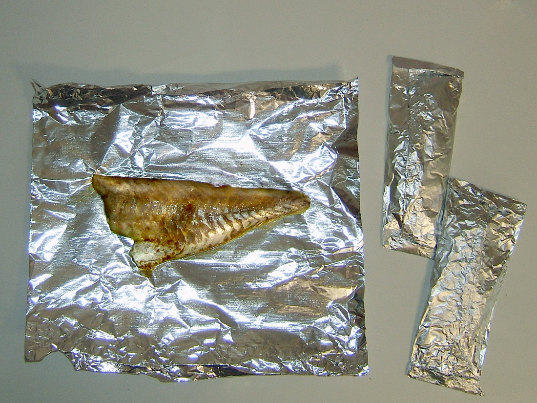 Extreme Cooking inspired by Bob Blumers book "Off The Eaten Path": Fish packed into aluminium foil and poached in the dishwasher (sic!). Worked and tasted excellent!